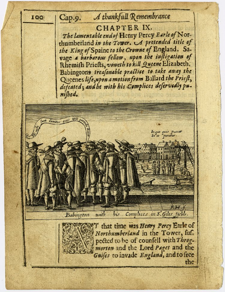 "Babington with his Complices in St. Giles fields," etching with engraving, showing Anthony Babington meeting with his co-conspirators on the eve of his plot. 75 mm x 107 mm. Courtesy of the British Museum, London.